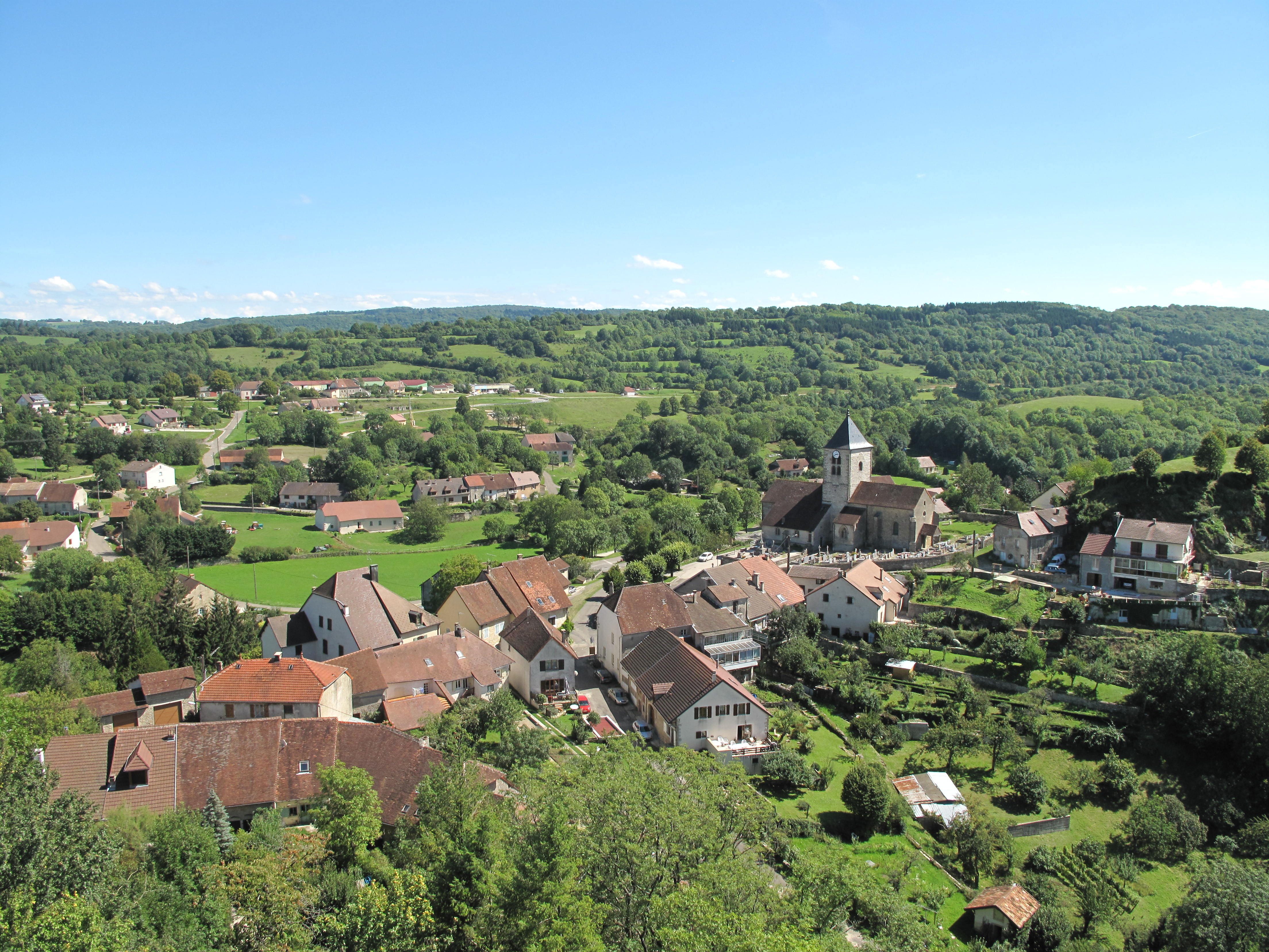 The village of Saint-Laurent-la-Roche (Jura, France).